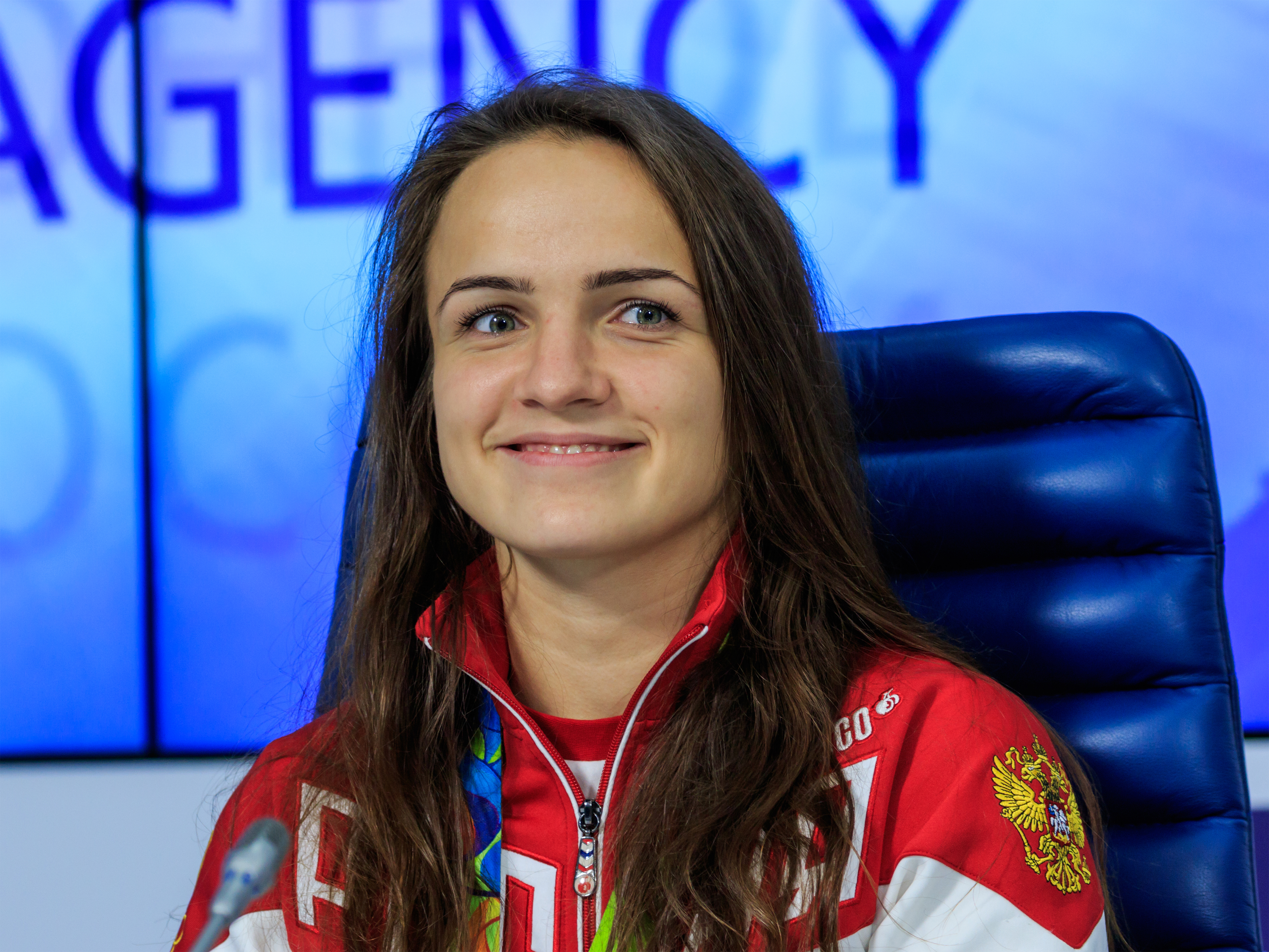 Anna Vyakhireva (b. 1995) is a handballer from Russia